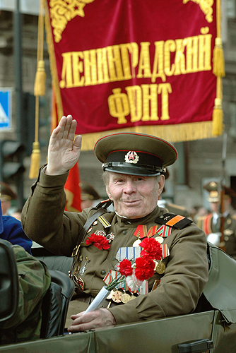 RED SQUARE, MOSCOW. Military parade celebrating the sixtieth anniversary of victory in World War II.